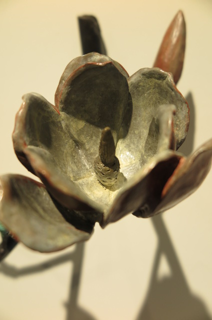 Magnolia flower in bronze and steel, by Sarah Maloney, from First Flowers 2014